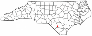 Category:North Carolina Dot Maps